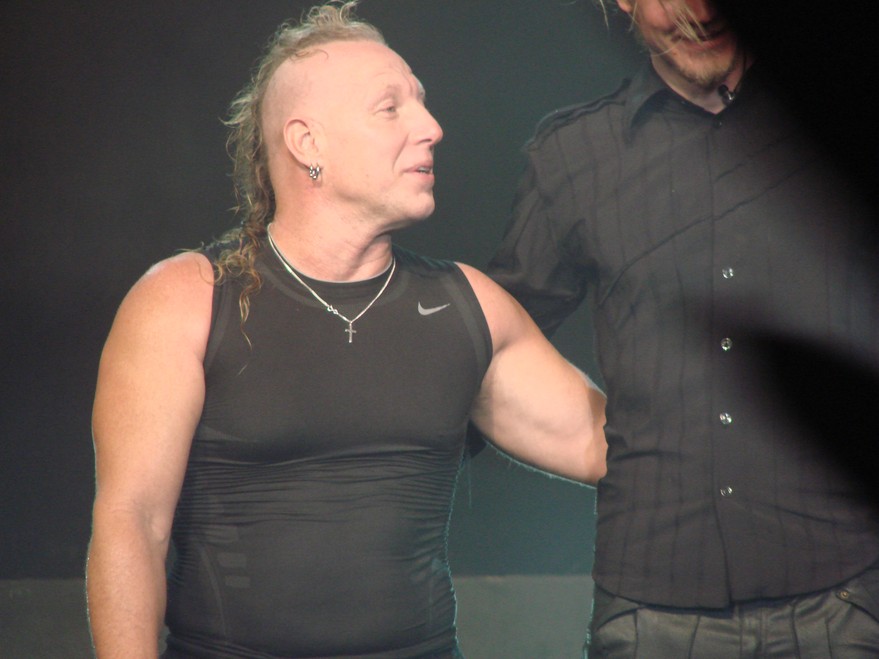 Mike Terrana (drums) at the end of the last show of Tarja Turunen's Winter Storm tour in America.